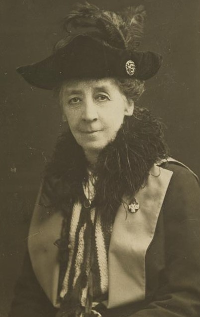 Elinor Halle CBE involved with splints in WW1 - guess date as 1919